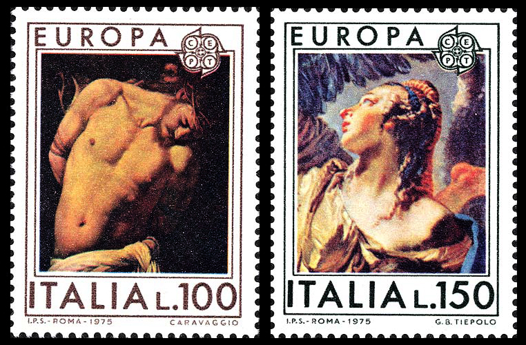 Postage stamps of Italy, 1975. Issue on the program EUROPE-CEPT 100 L: Flagellation of Christ, by Caravaggio (1571-1610) 150 L: The angel appears to Hagar and Ishmael, by Tiepolo (1696-1770)